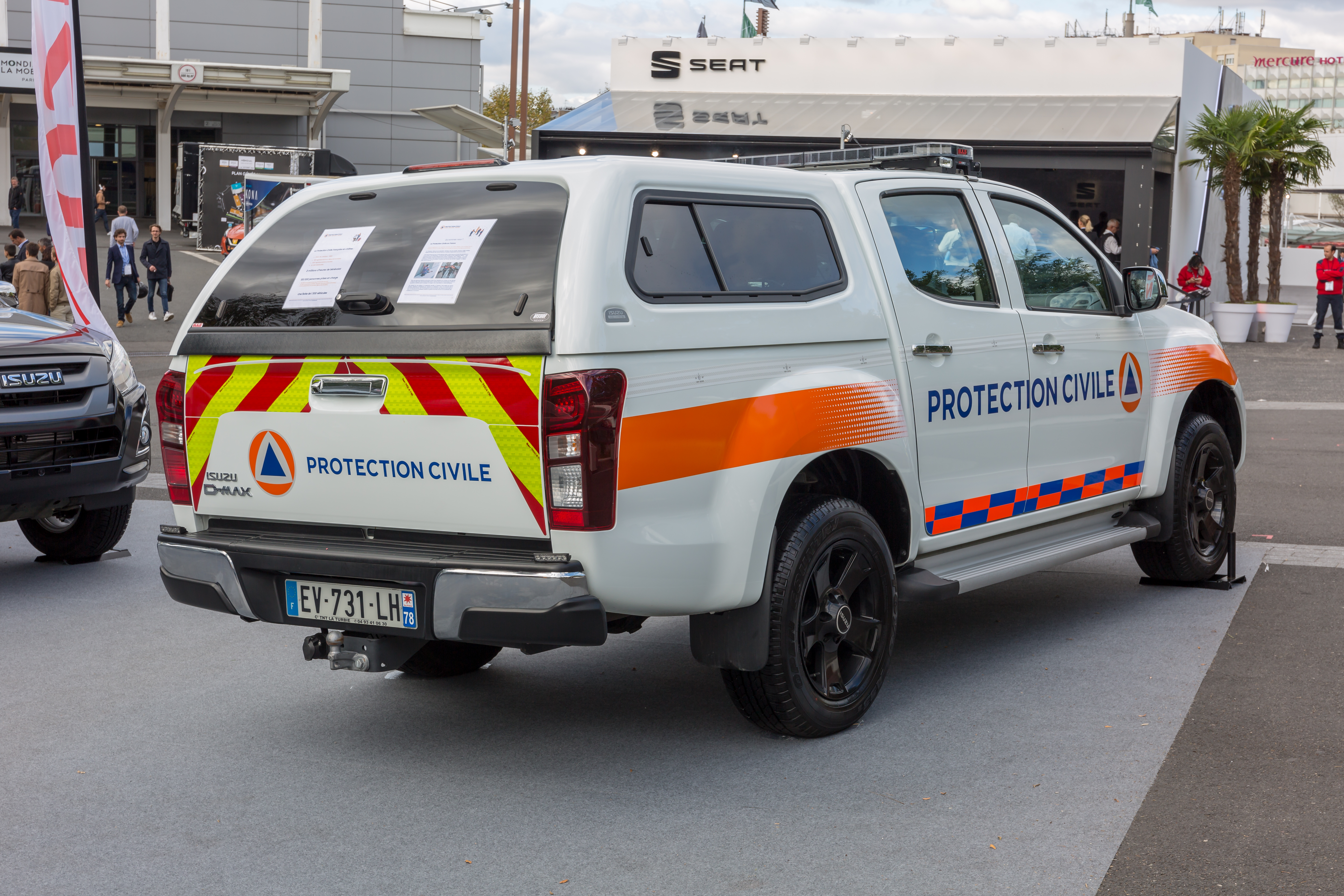 Isuzu D-Max of the Civil Protection, Mondial Paris Motor Show 2018